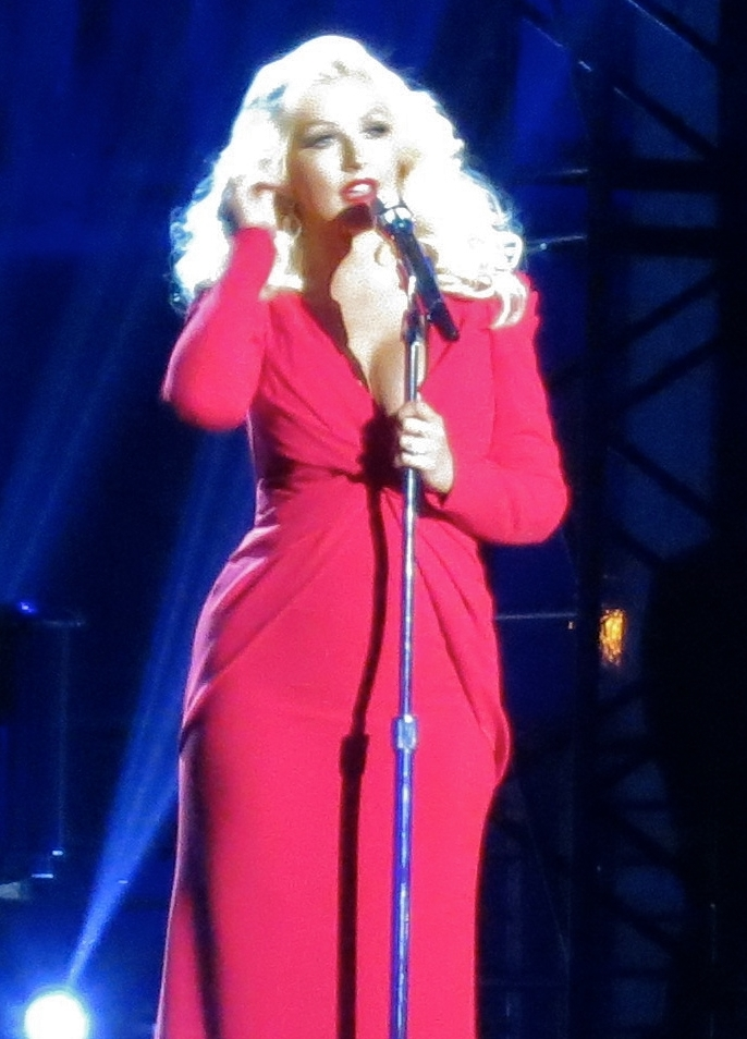 Christina Aguilera Singing Beautiful to the Breakthrough Prize Scientists.